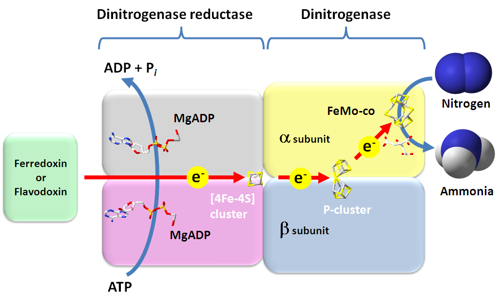 Reaction scheme of Nitrogenase